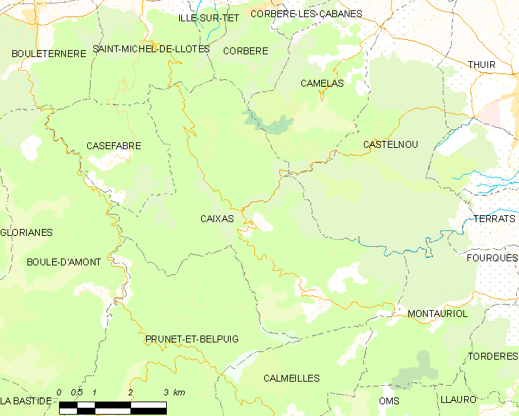 Map of French municipality